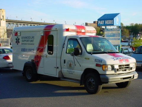 British Columbia Ambulance Service, ALS Unit, with "AMBULANCE" in mirror writing ("ECNALUBMA")